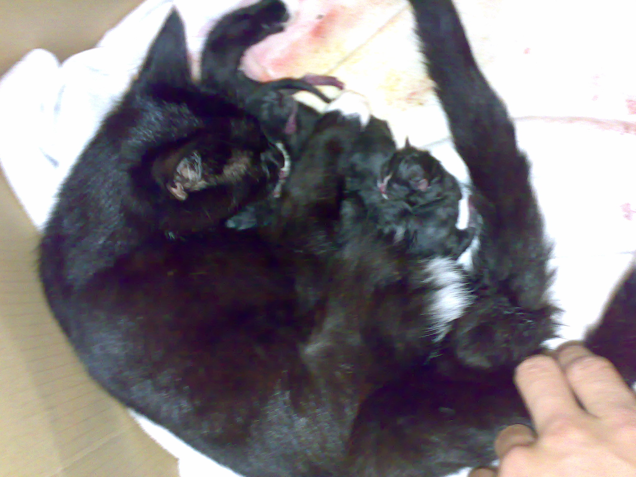 A cat after childbirth.